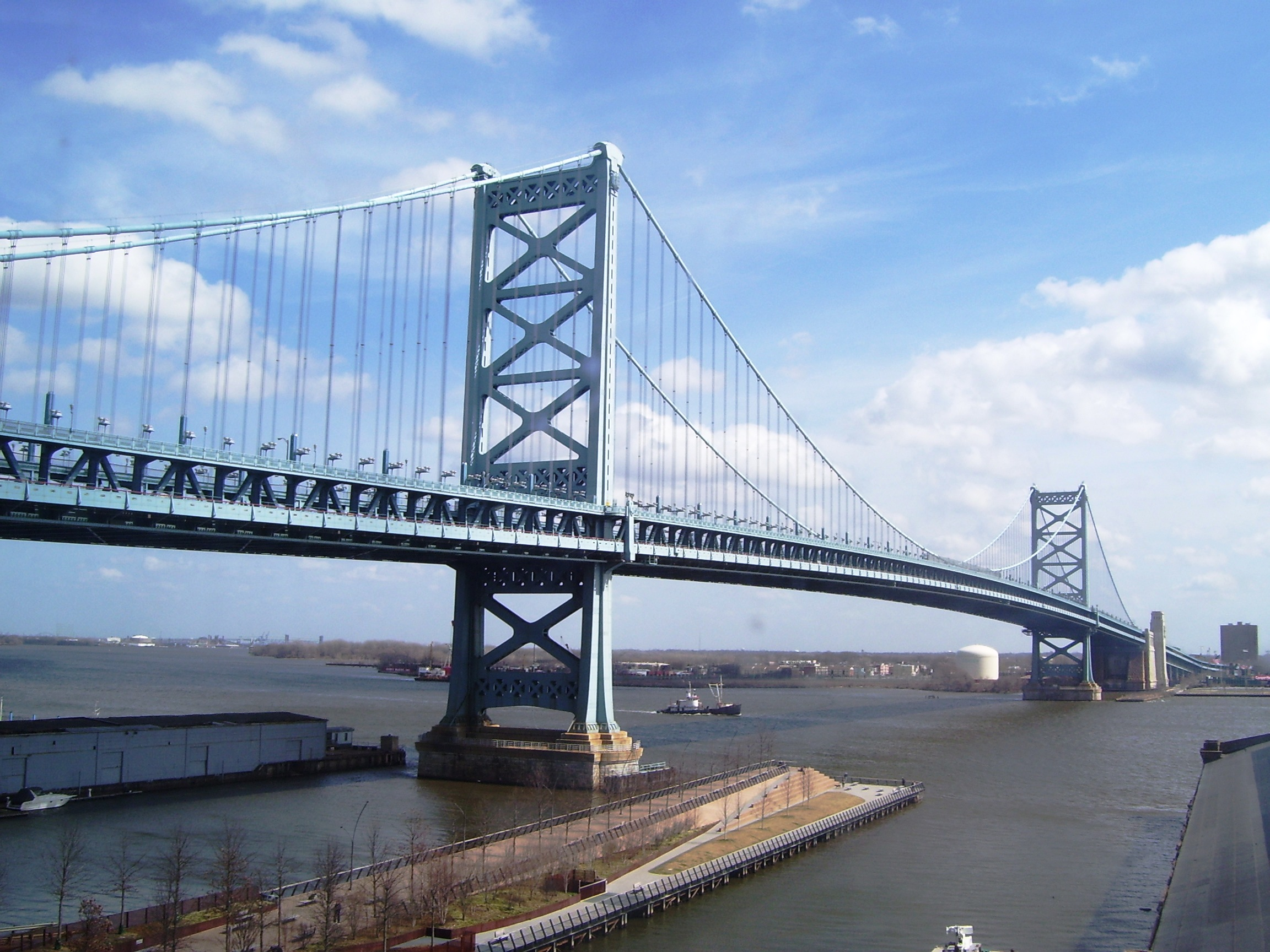 The Benjamin Franklin Bridge as seen from the 8th floor of the Comfort Inn at 100 N. Christopher Columbus Blvd. in Philadelphia, Pennsylvania. In the foreground is the Race Street Pier.